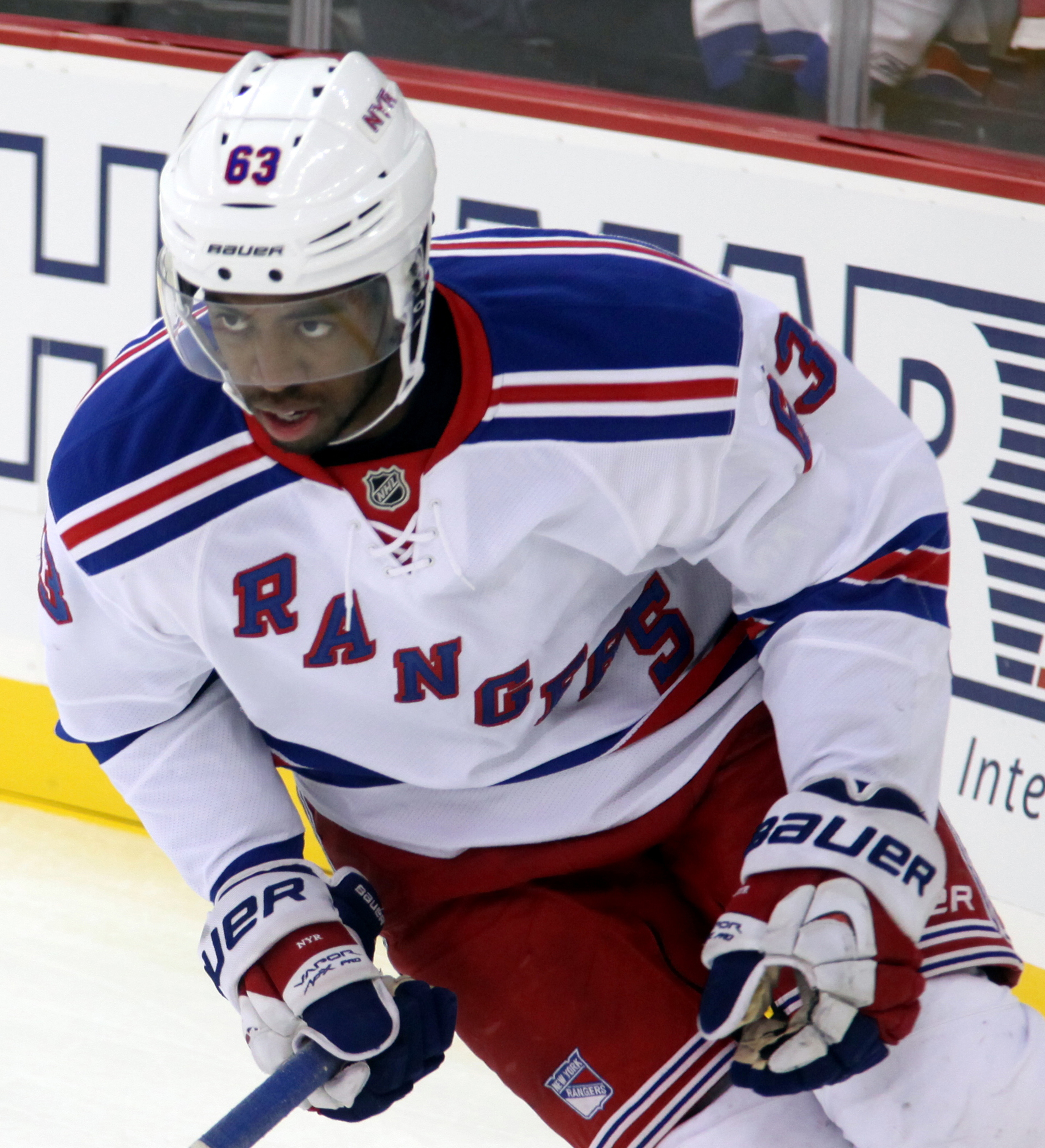 Duclair during a preseason game in October 2014.